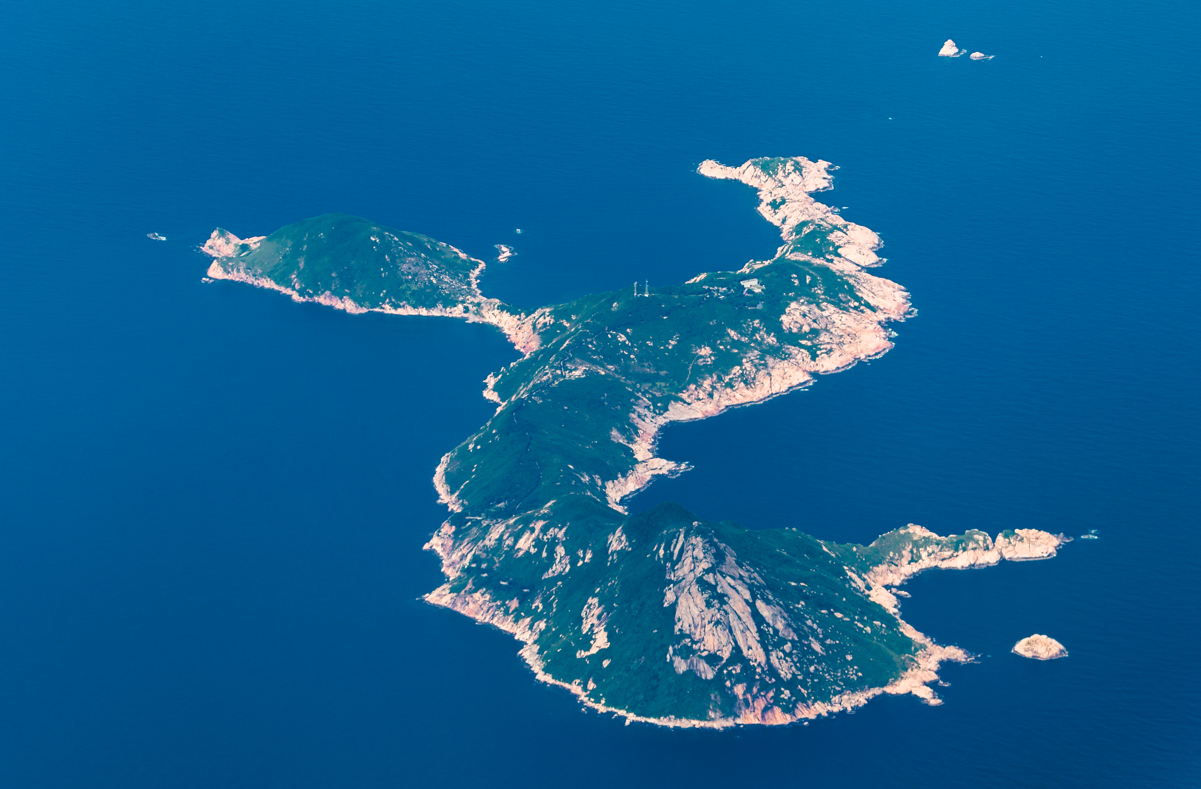 Islas del archipiélago Wanshan, Hong Kong